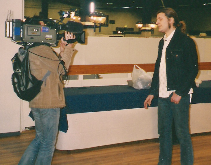 Orvar Säfström at the Scandinavian Sci-Fi, Game & Film Convention in Gothenburg in 2005.